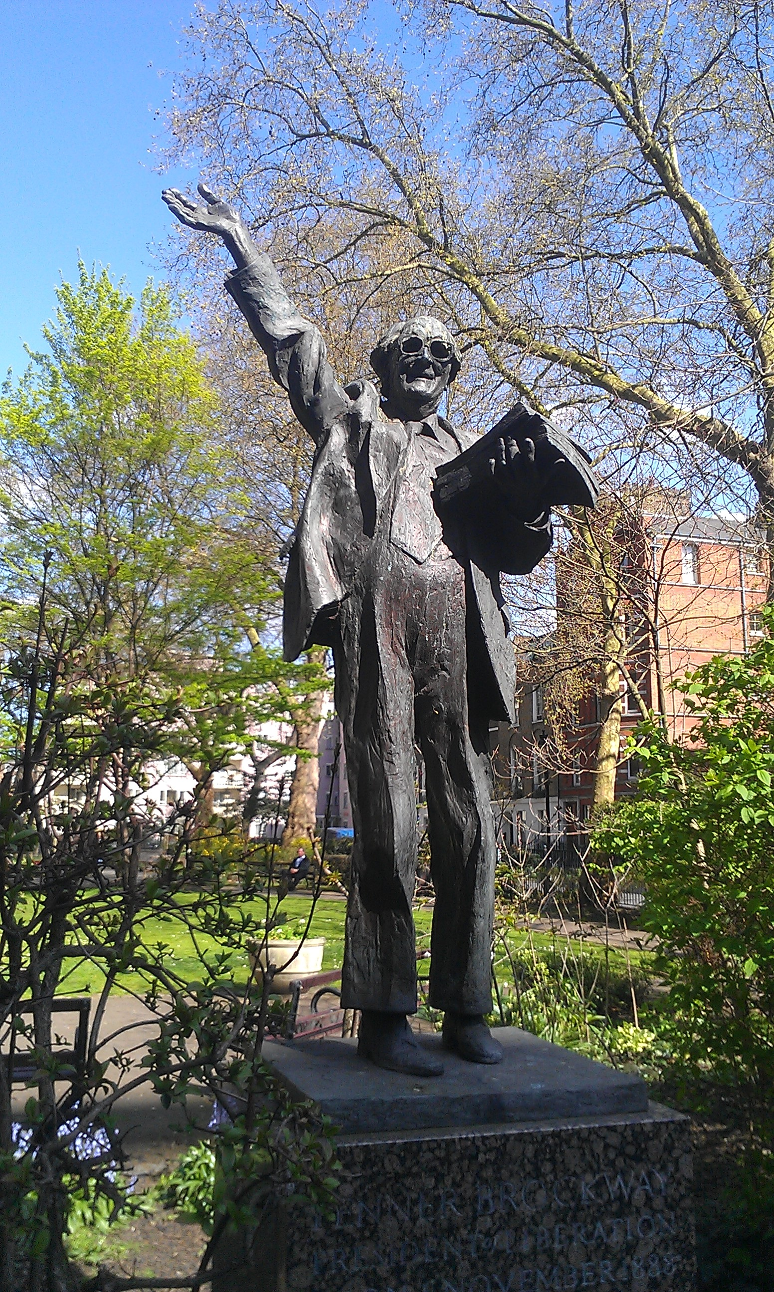 A statue of Fenner Brockway erected in Red Lion Square, Holborn.